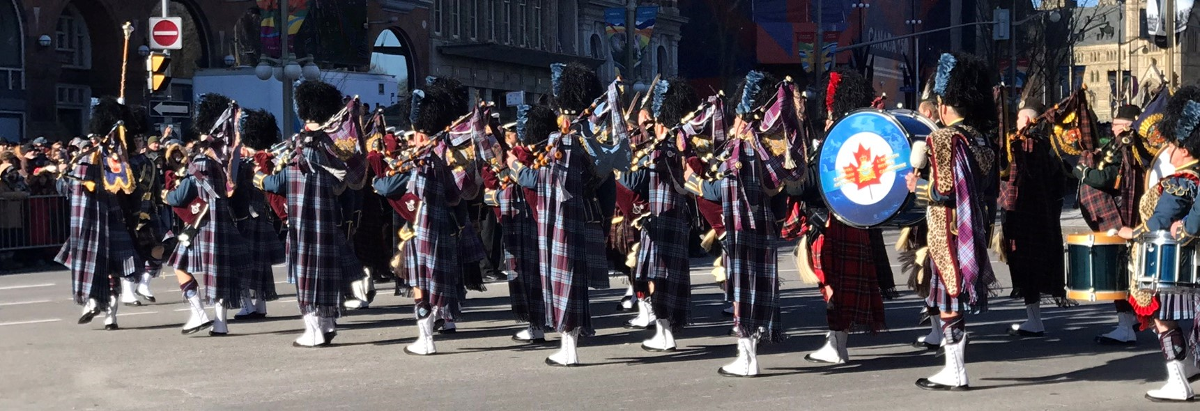 Military ceremony for Remembrance Day 2017 at the National War Monument in Ottawa, Canada